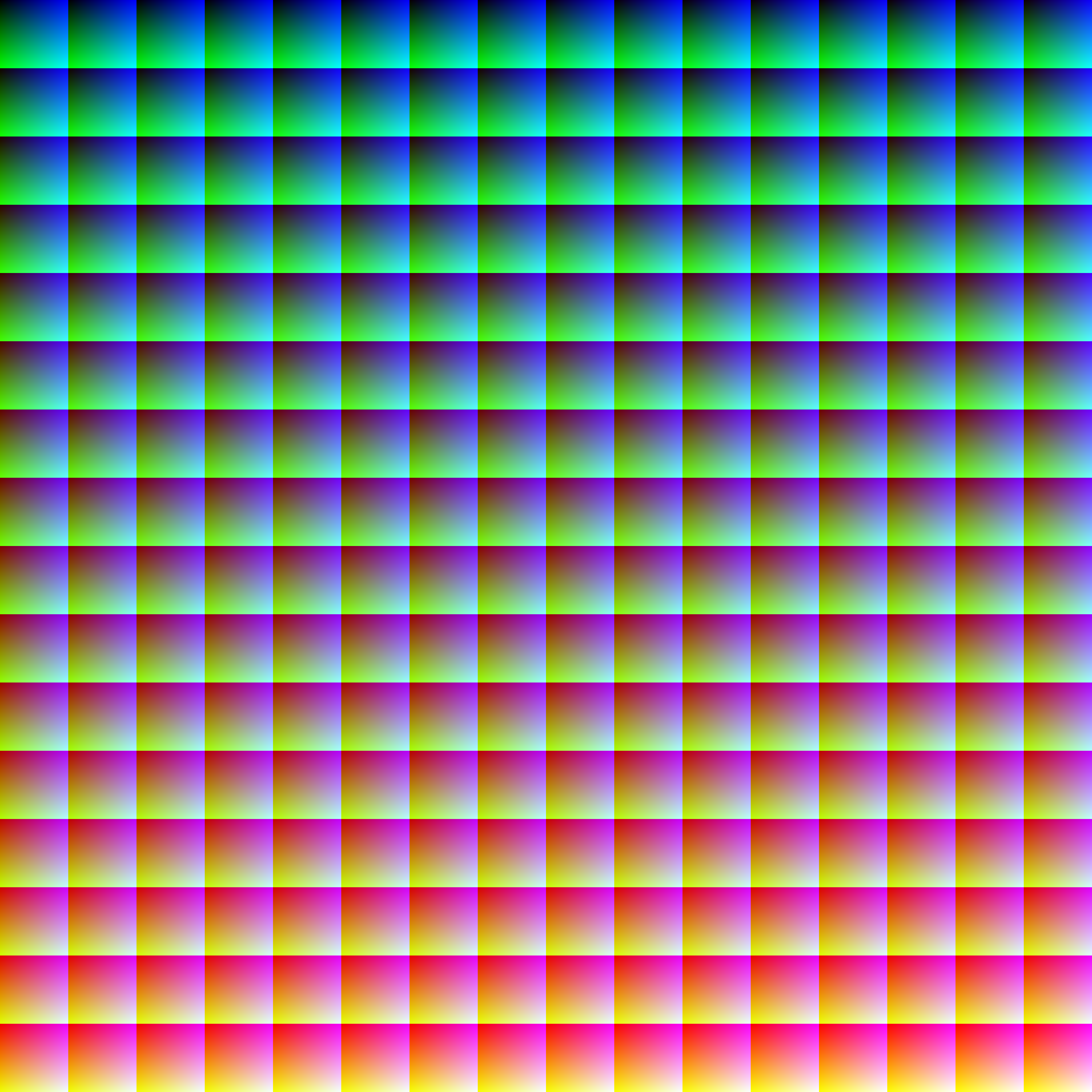 All 16,777,216 colors of 24-bit RGB palette (truecolor) in a 4096 × 4096 bitmap. This image was made by copying Image:Greenblue.png 256 (technically 81) times into a 16x16 grid then adding a resized 16 × 16 to a 256 × 256 additive layer of black to red increasing from left-to-right, descending, above the original 16x16 grid of Image:Greenblue.png. This image follows a different pattern than Image:16777216colors.png